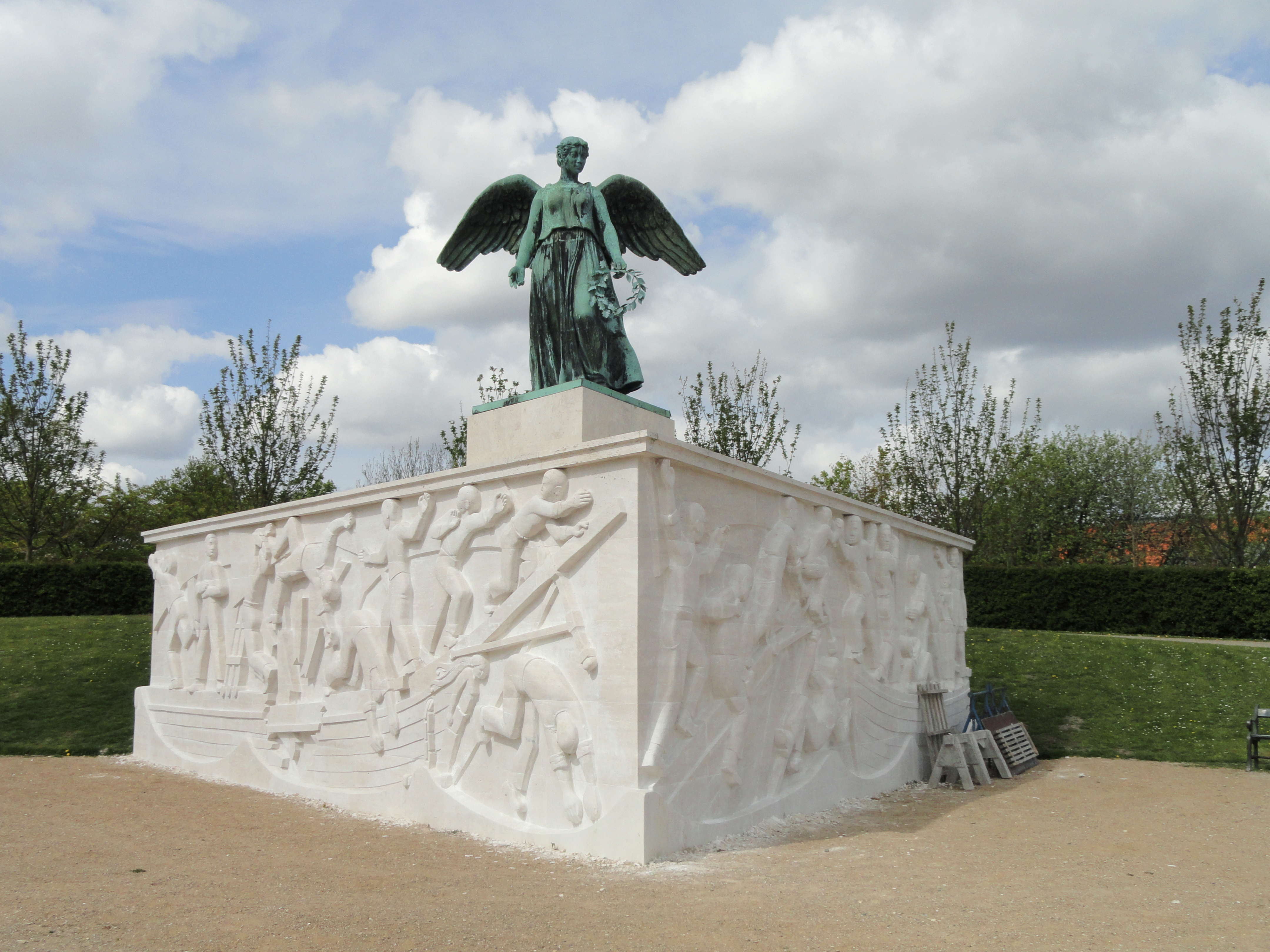 Søfartsmonumentet (Maritime Monument) - Langelinie, Copenhagen, Denmark. Sculpted by Svend Rathsack (1885–1941). This statue is in the public domain because the sculptor died more than 70 years ago.